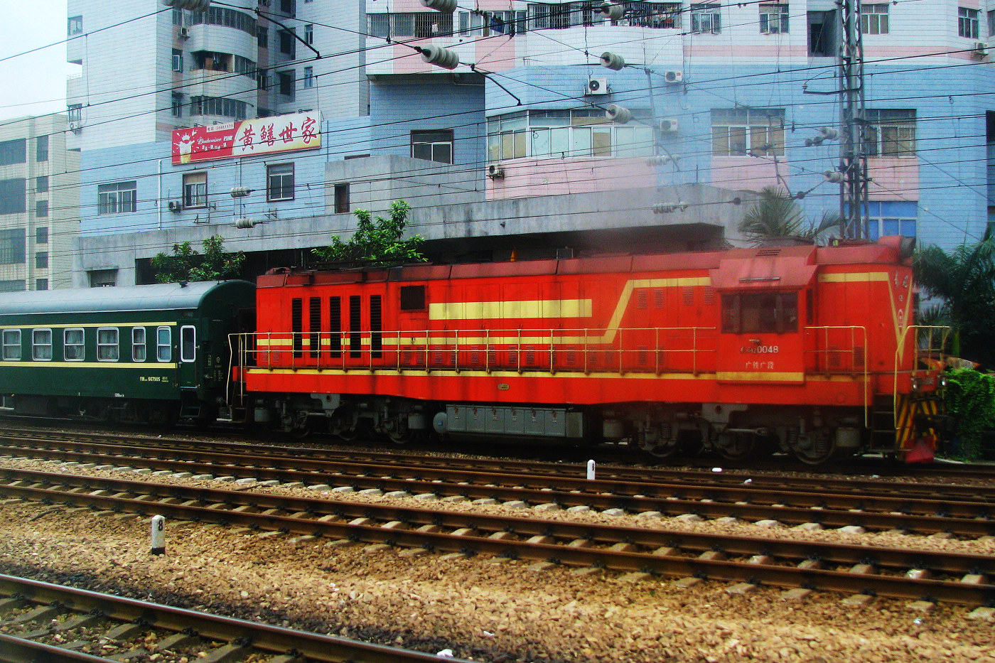 A China Railways DF12 diesel locomotive, close to Guangzhou East Railway Station